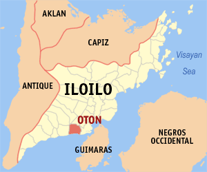 Map of Iloilo showing the location of Oton